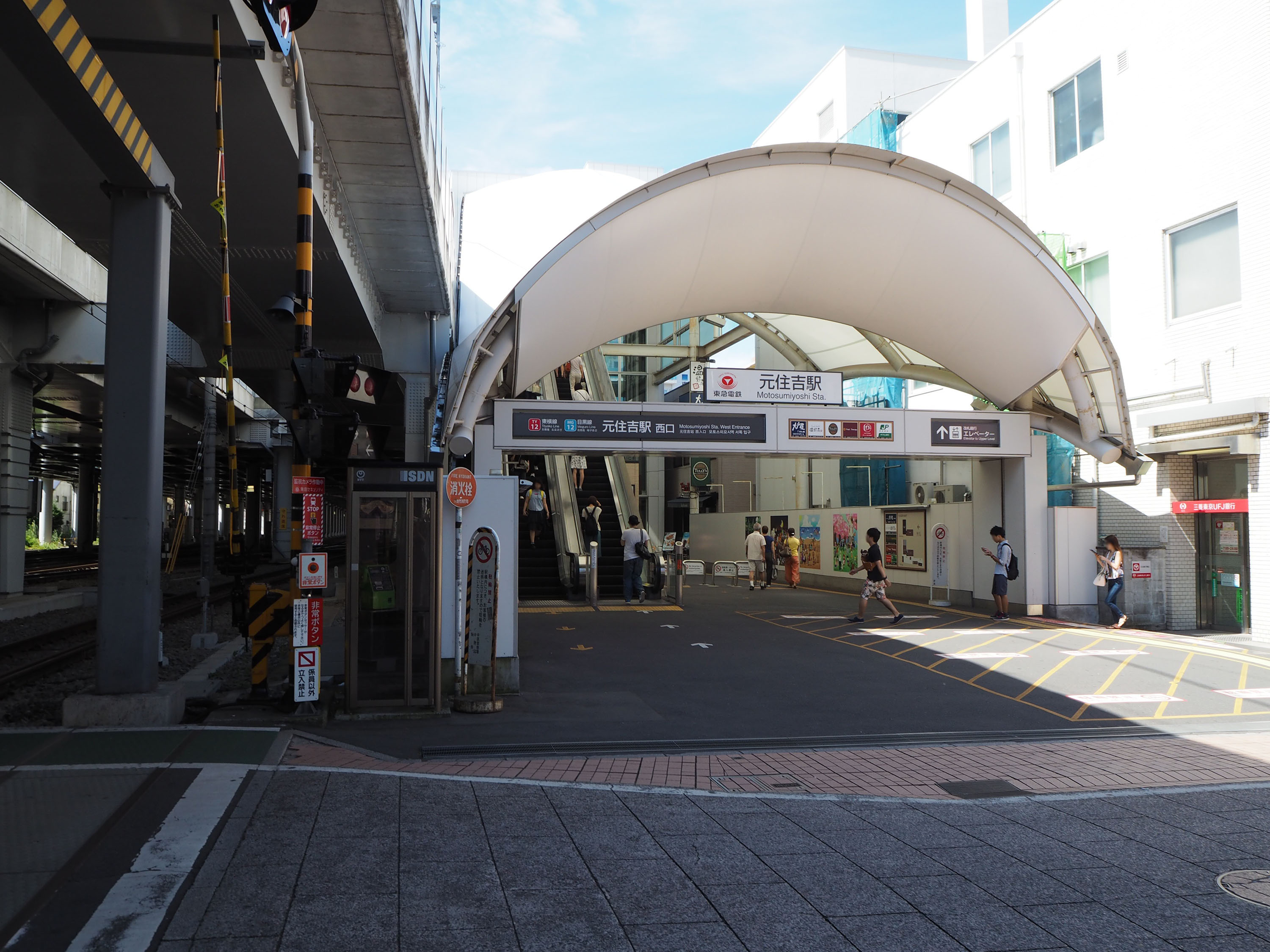 West Entrance of Motosumiyoshi Station